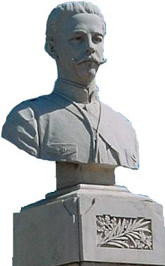 Arcadio_Leyte_Vidal